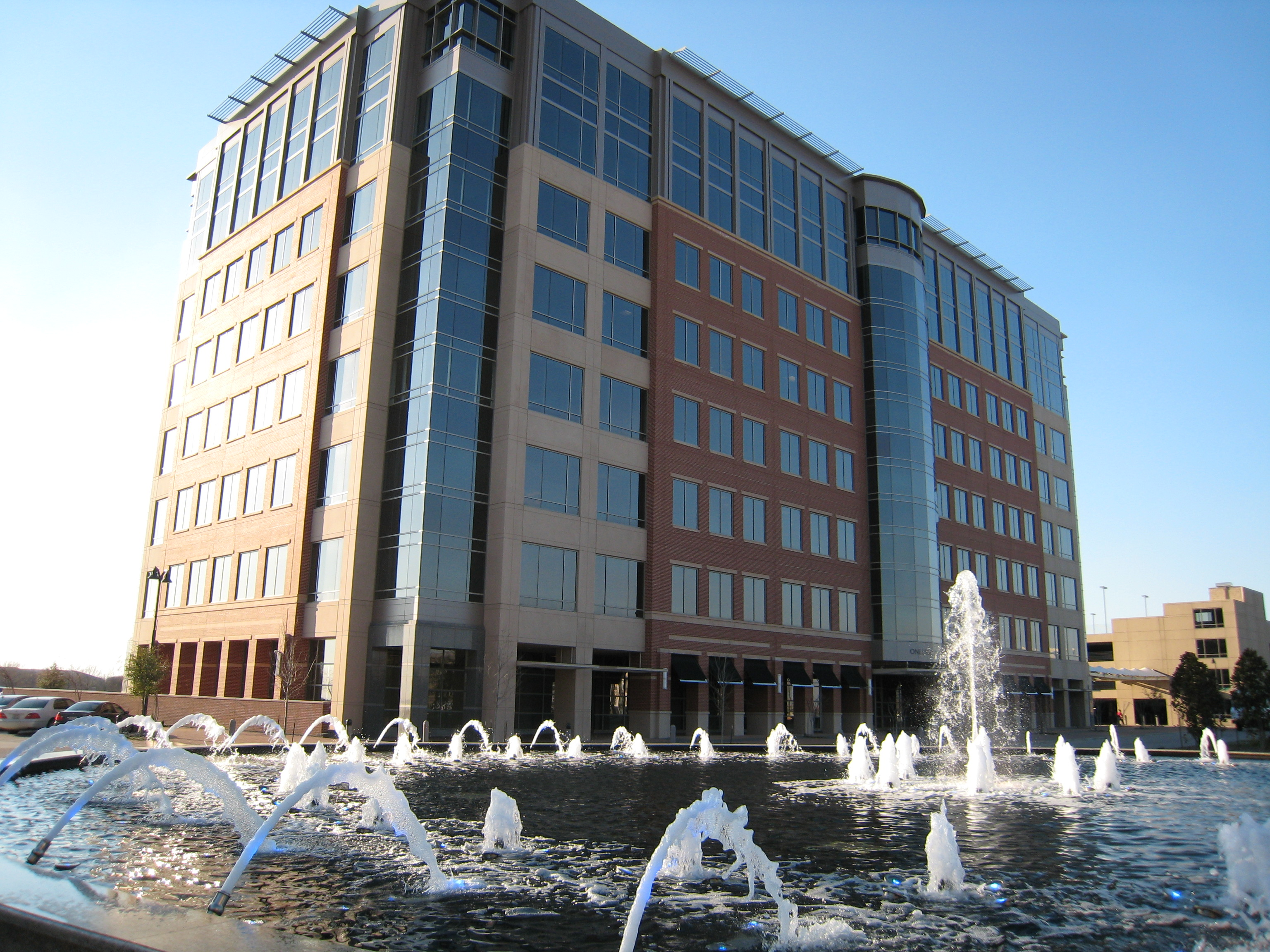 Alliance Data's Plano,TX Headquarters Building